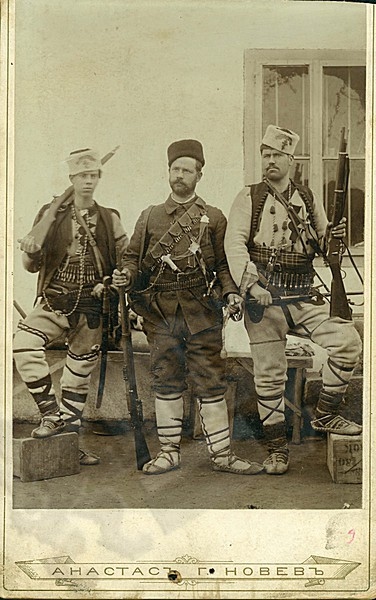 Milan Delchev, Stefan Mandalov and another revolutionary.